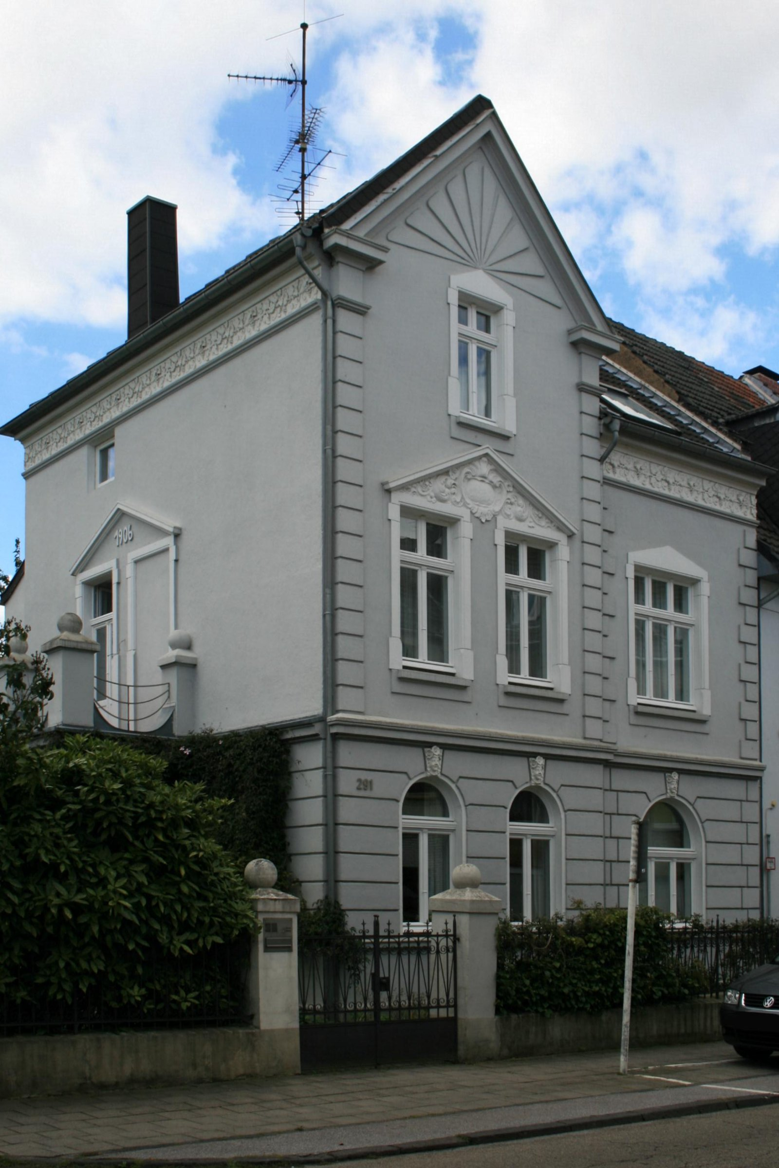 Cultural heritage monument No. P 002 in Mönchengladbach